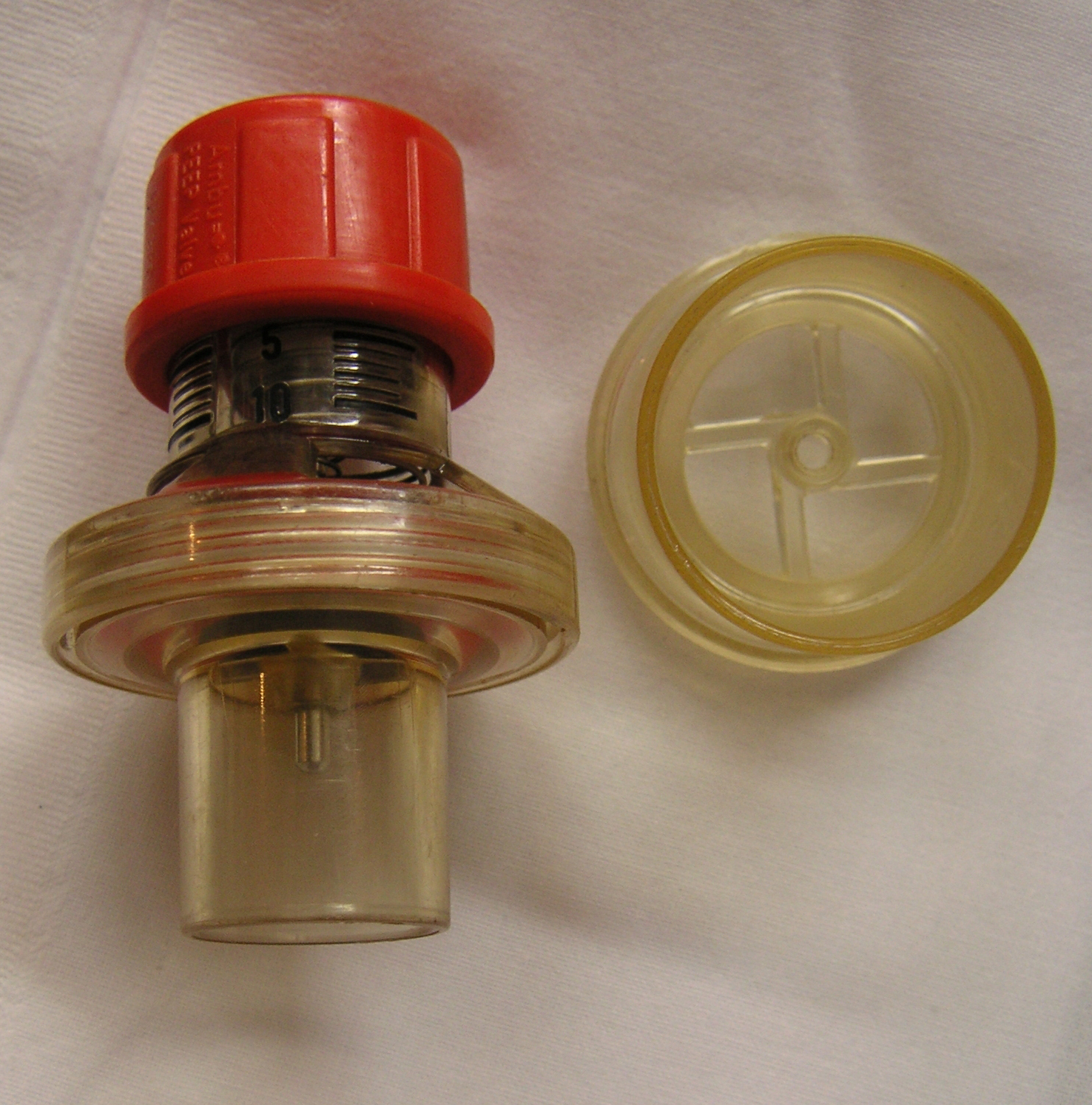 A PEEP-valve for respiration purposes. Right: Adult adapter